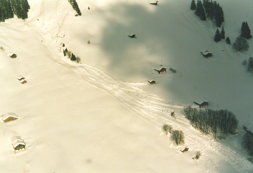 Grubenlawine Färmeltal